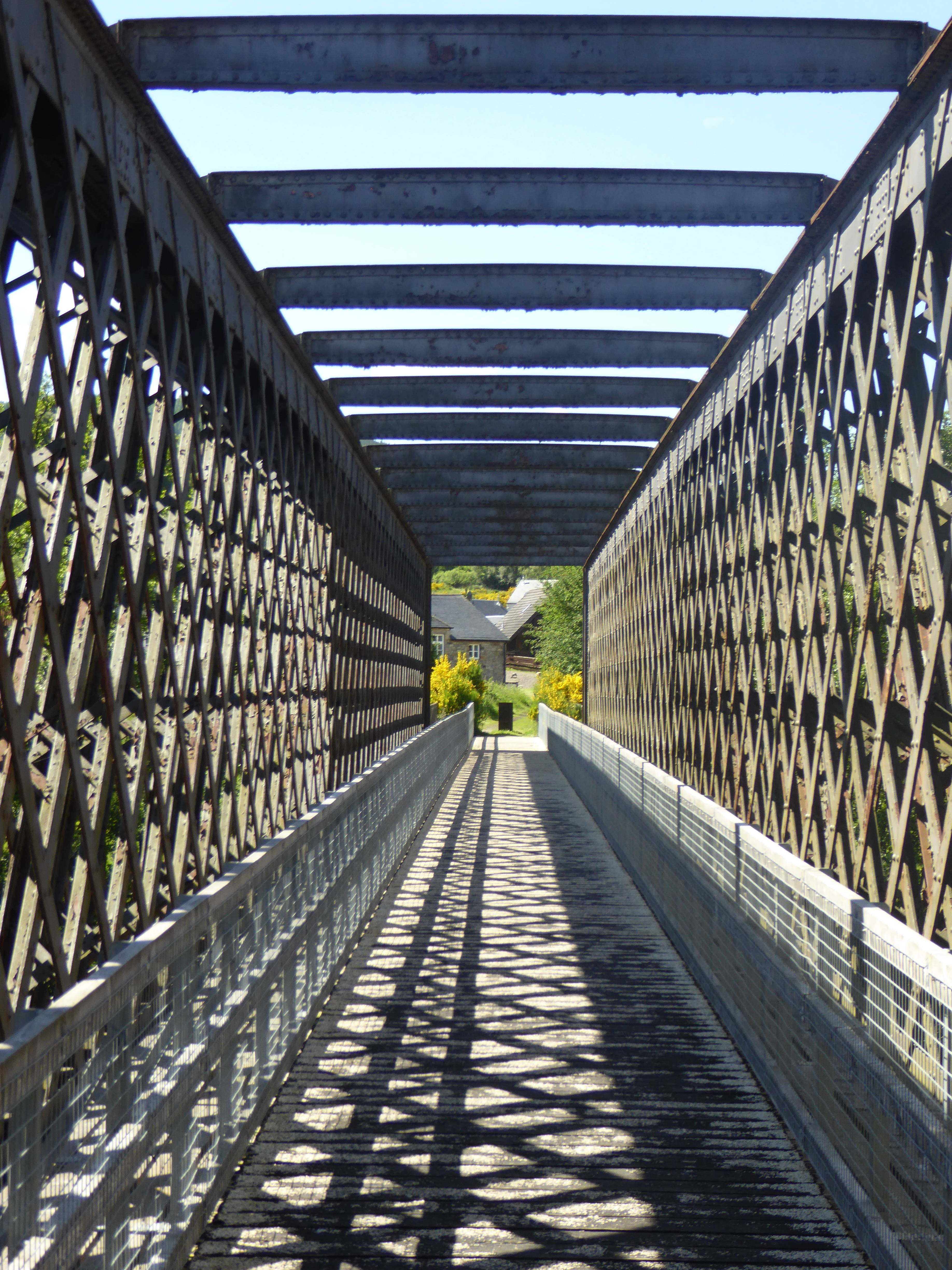 Detail of old railway bridge, Ballindalloch